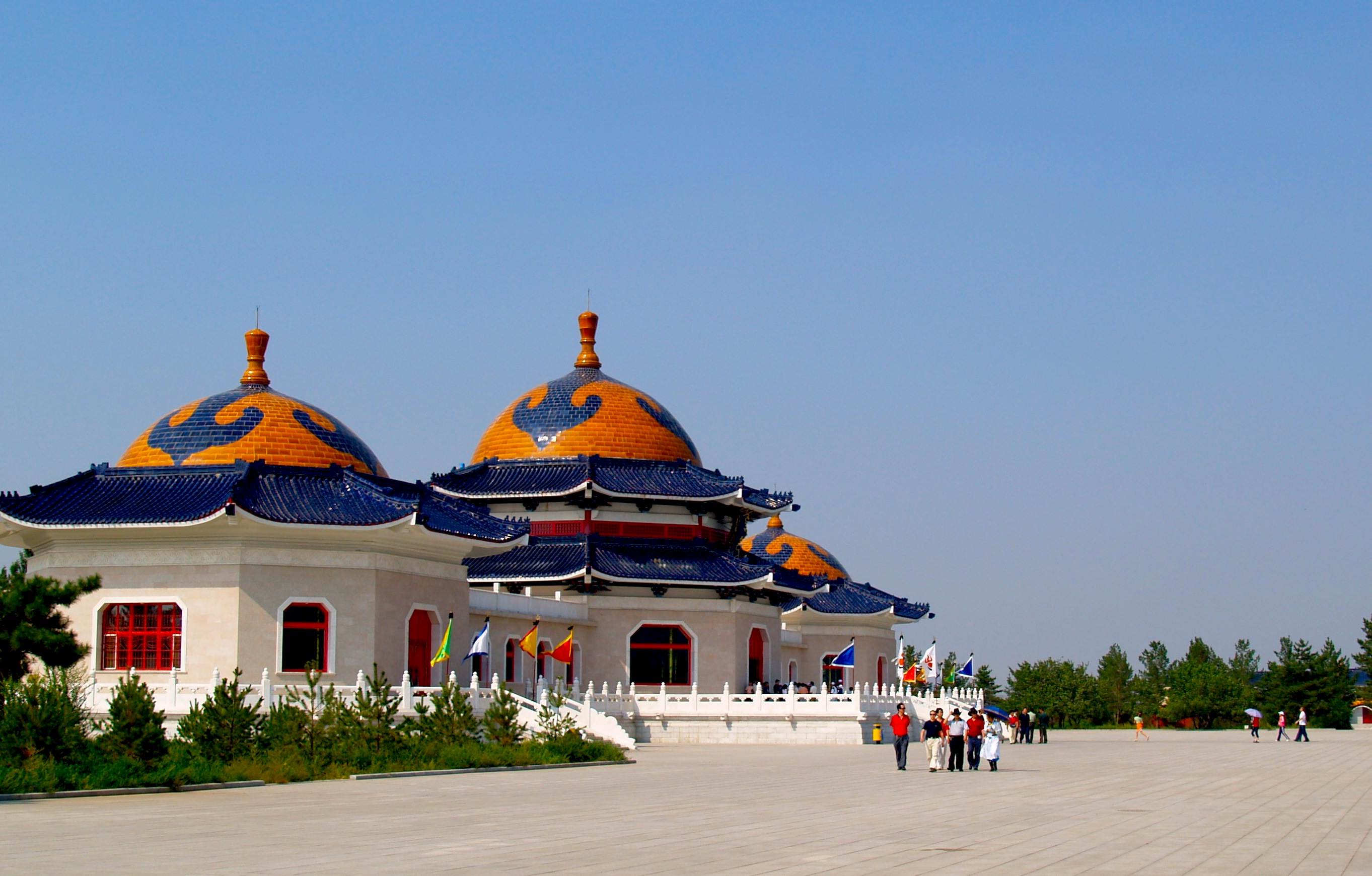 Ghengis Khan Mausoleum near Ordos in Inner Mongolia